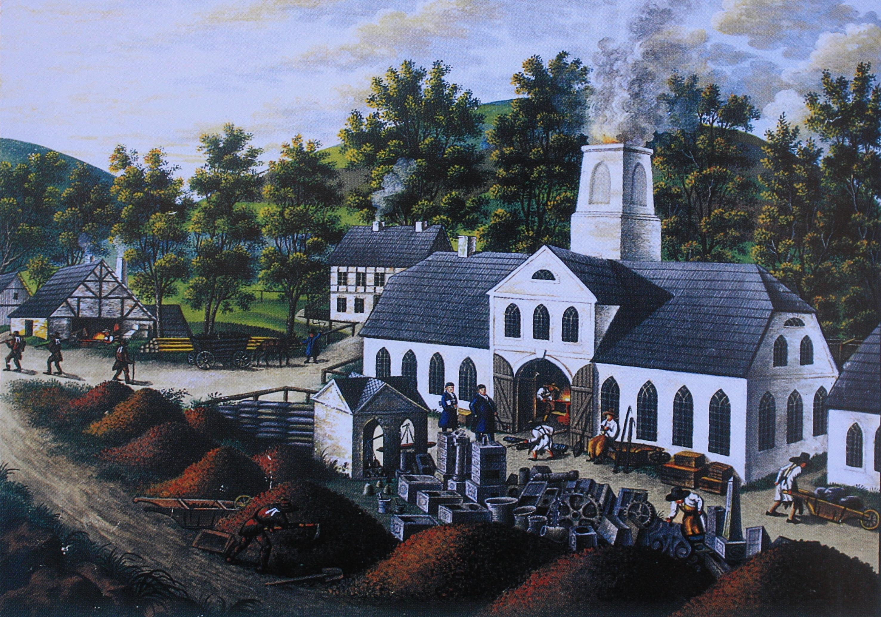 Erlhammer, Carl Gottlieb Nestler